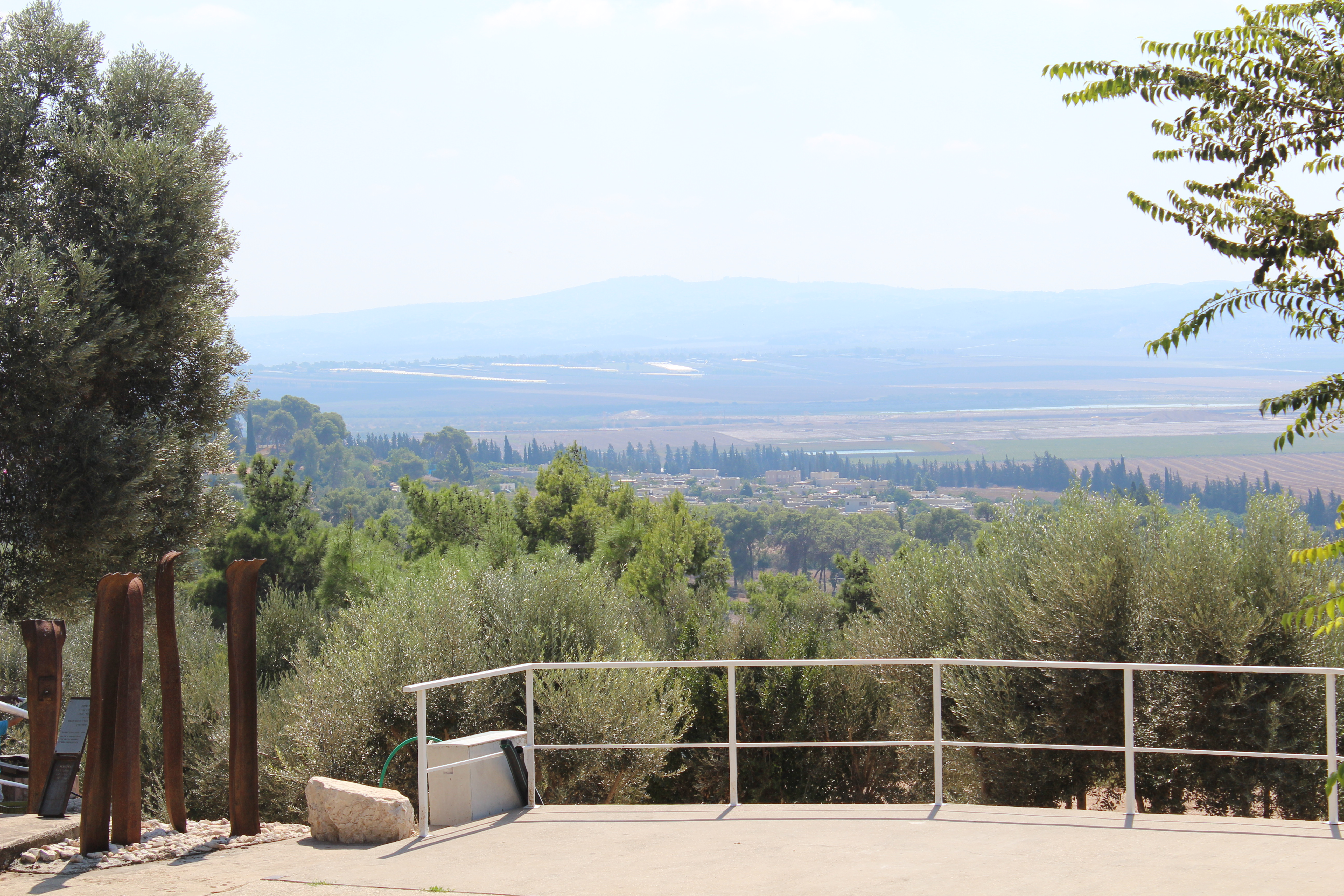 The Museum of Pioneer Settlement, Kibut Yifat